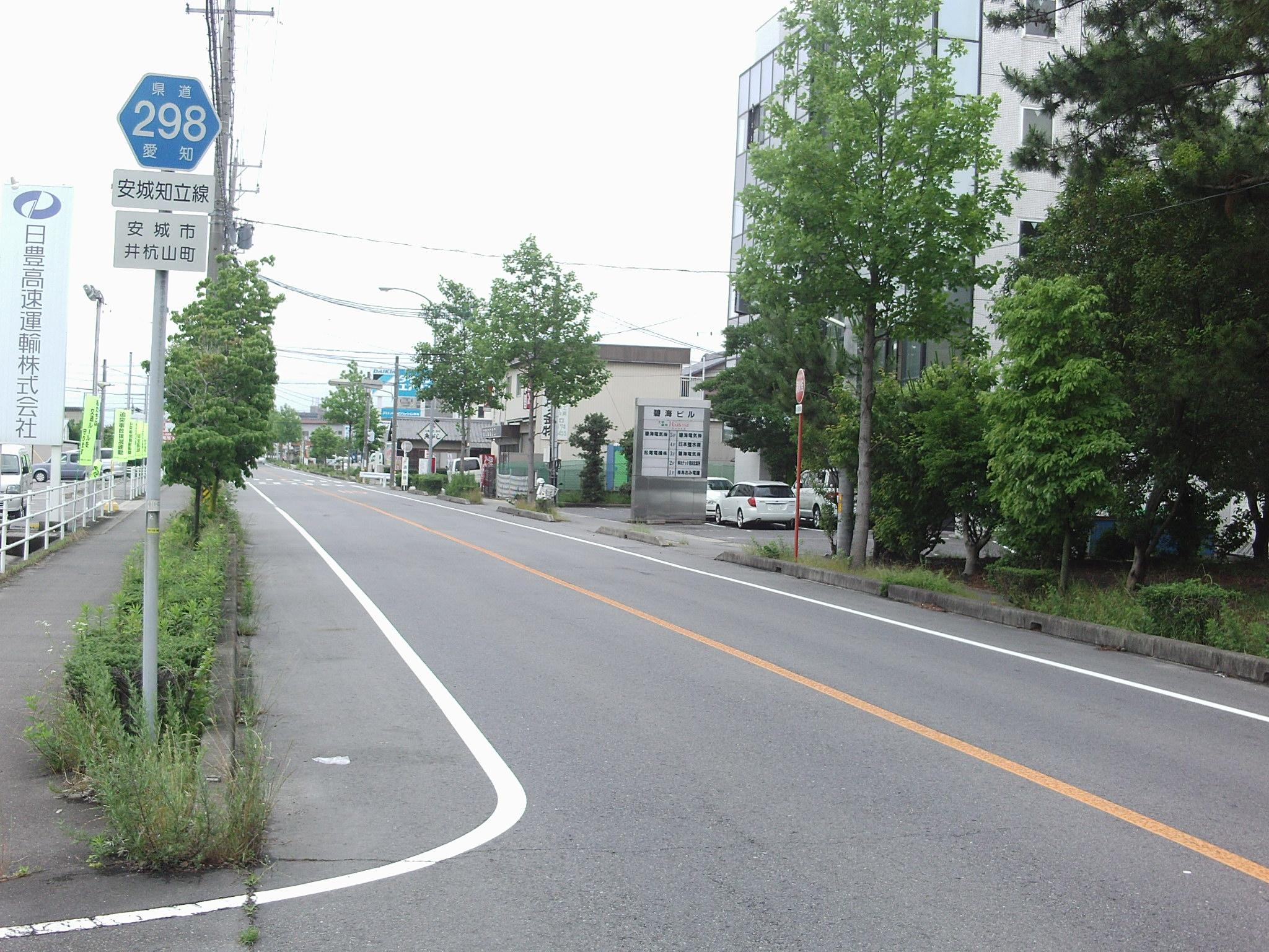 Aichi prefectural road No.298 in Iguiyamacho, Anjo, Aichi.